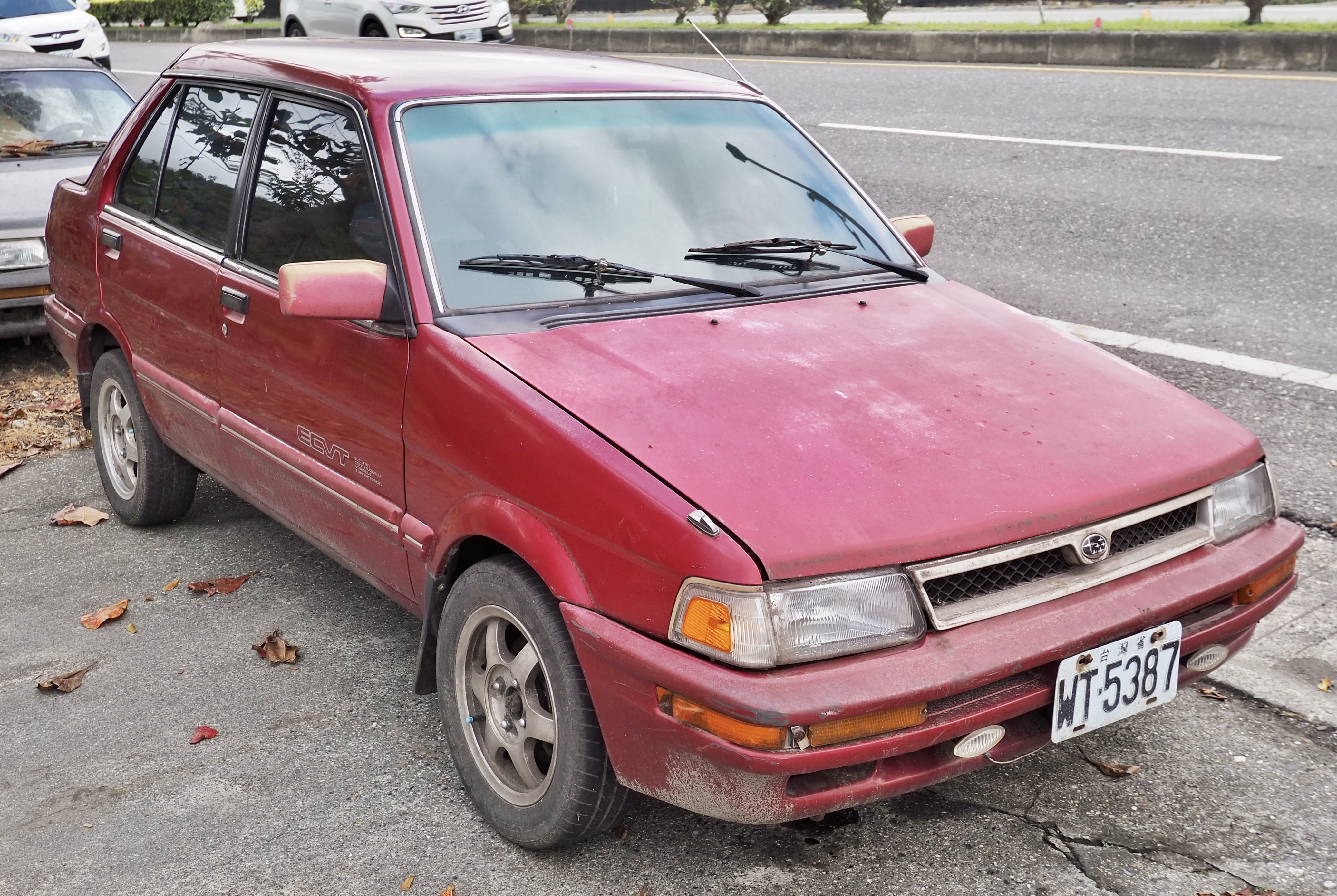 A 1990 Ta Ching-Subaru Tutto photographed in Taimali Township, Taitung County, Taiwan.